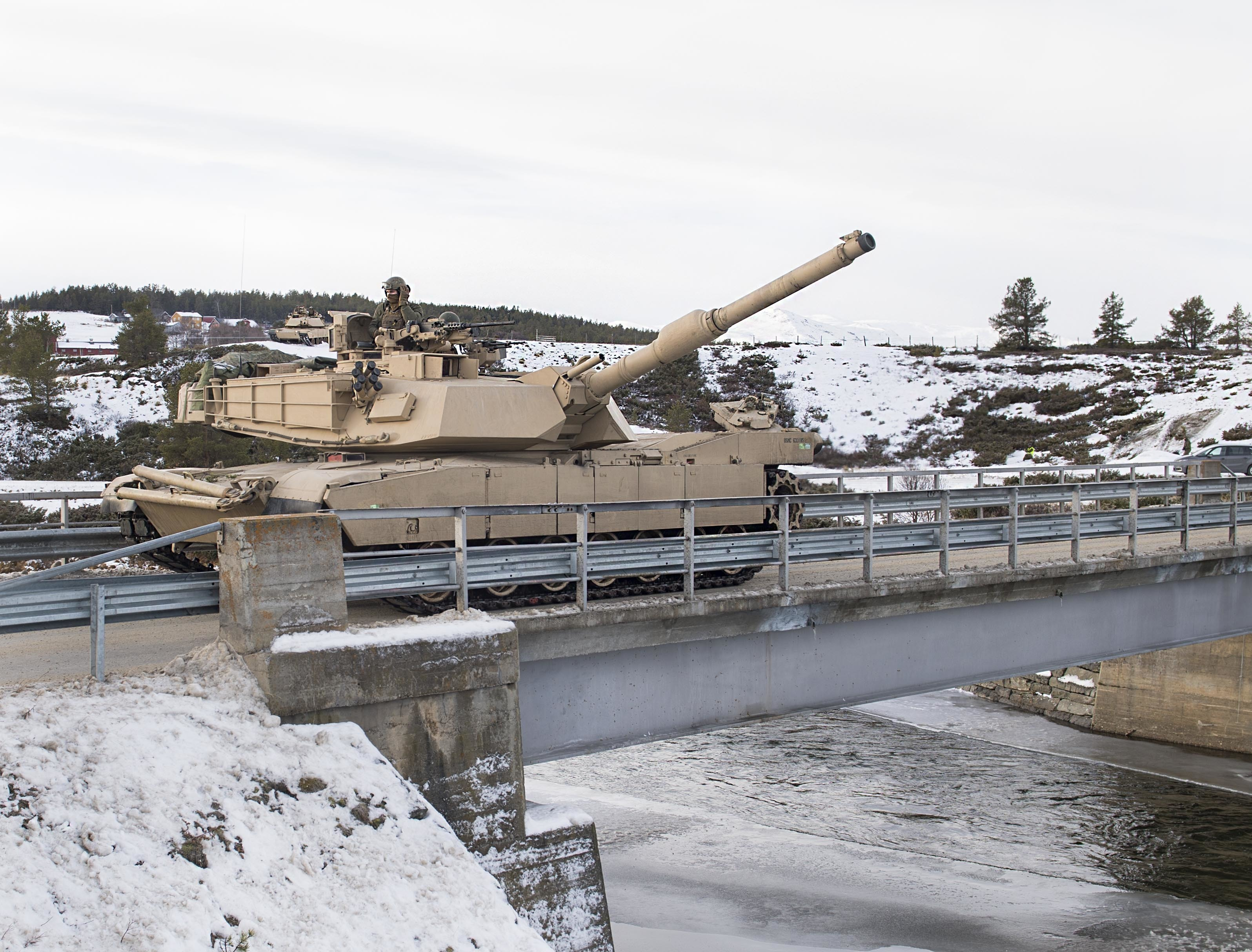 U.S. Marines with 2nd Tank Battalion, 2D Marine Division, advance on their eastern objective defended by opposing Spanish forces during Exercise Trident Juncture 18 near Folldal, Norway on Nov. 3, 2018. Trident Juncture 18 enhances the U.S. and NATO Allies’ and partners’ abilities to work together collectively to conduct military operations under challenging conditions. (U.S. Navy photo by Mass Communication Specialist 2nd Class Deanna C. Gonzales/Released)